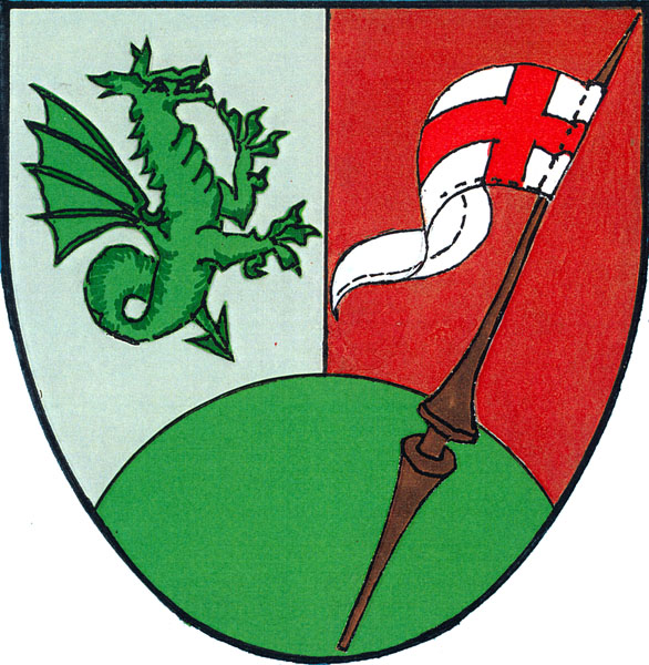 Municipal coat of arms of Mnetěš village, Litoměřice District, Czech Republic.